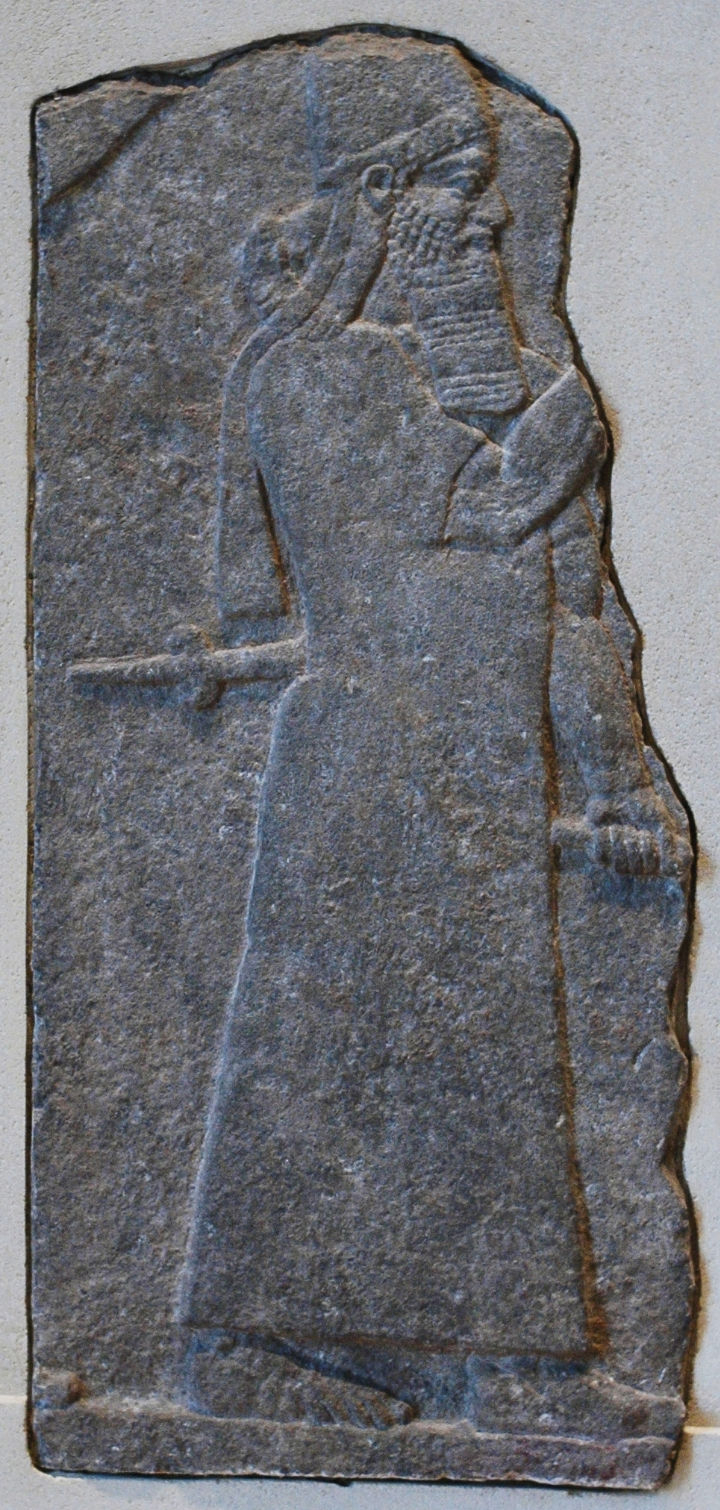 Tiglath-Pileser III, king of Assyria (744–727 BC). Gypsum alabaster relief from Tiglath-Pileser's palace at Nimrud, third quarter of the 8th century BC.